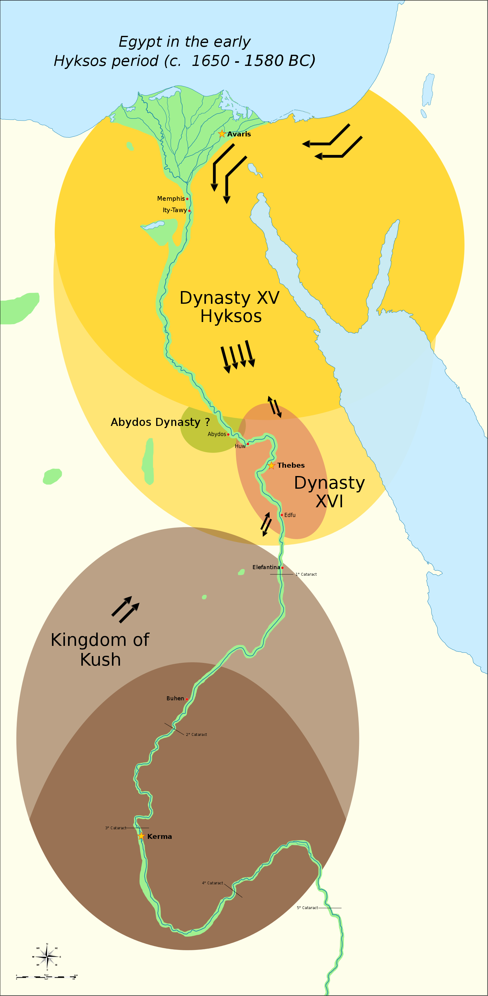 The political situation in Egypt during the early Hyksos period (1650-1590 BC) in the midst of the second intermediate period (1800-1550 BC).